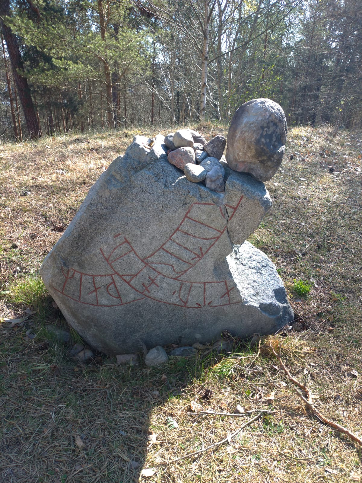 rune stone